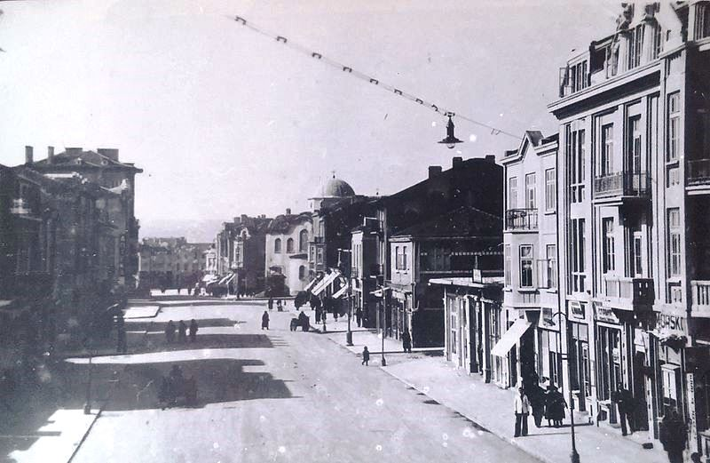 Varna. Photos of "Knyaz Boris" boulevard.